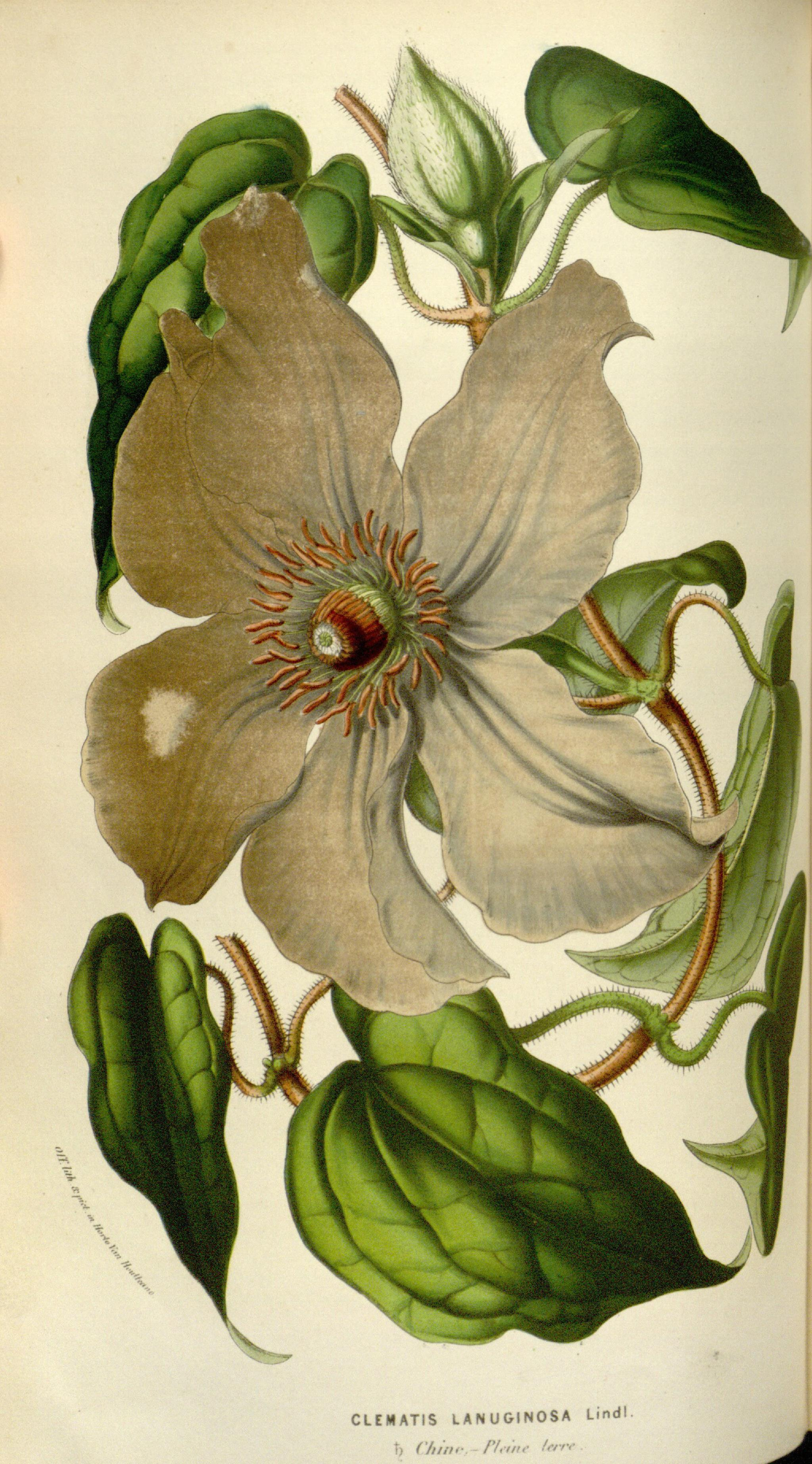 Clematis lanuginosa